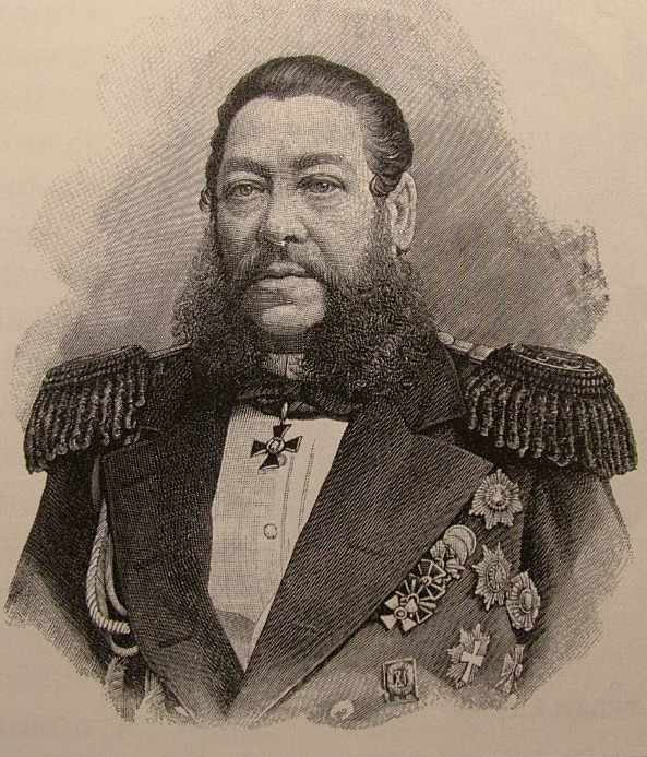 Krabbe Nikolai Karlovitsch (1814-1876) Admiral of Russia, Ministr (1860-1874)